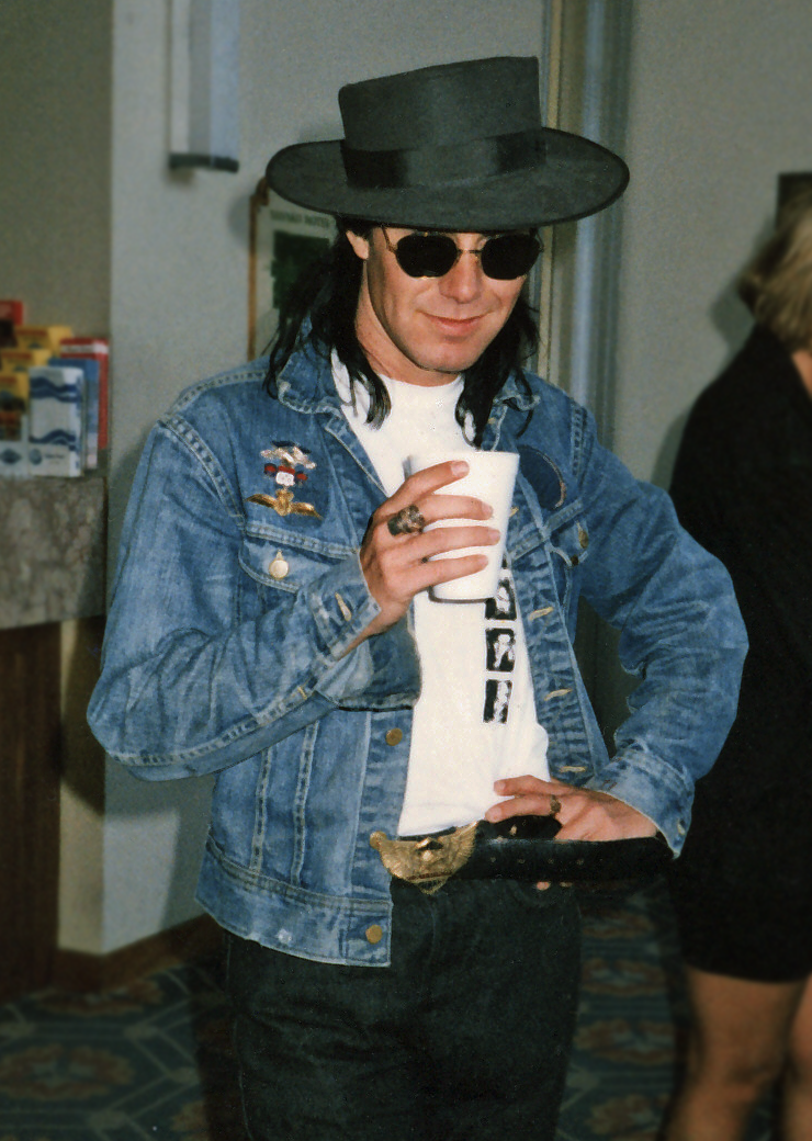 James Freud of Models in the lobby of the Miyako Hotel in San Francisco, California - 1986